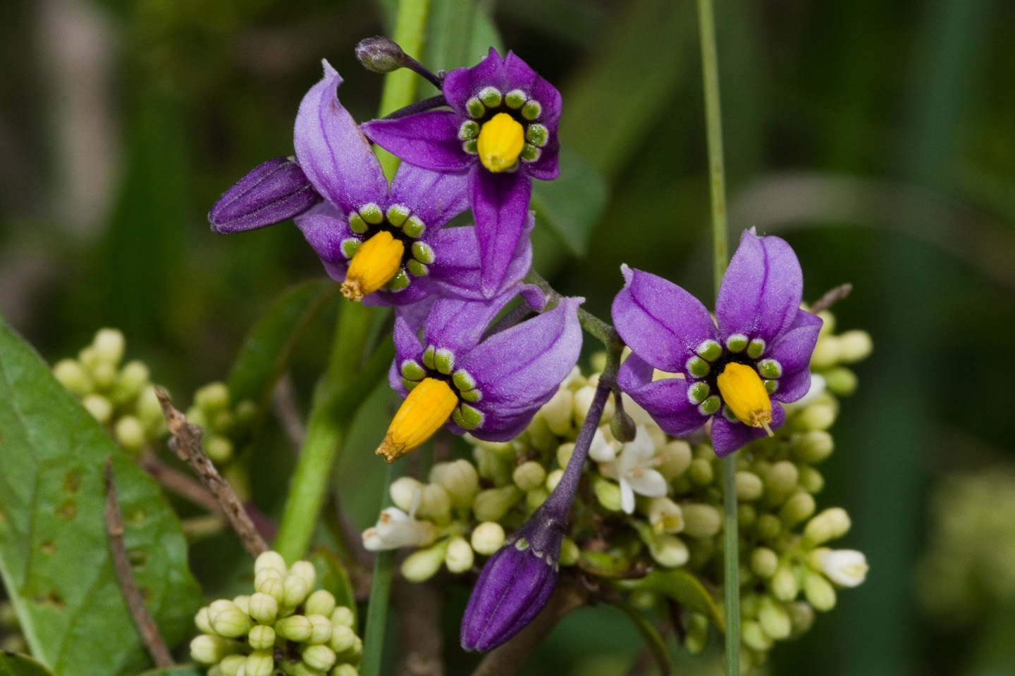 Solanum dulcamara. Close-up of the flower. [